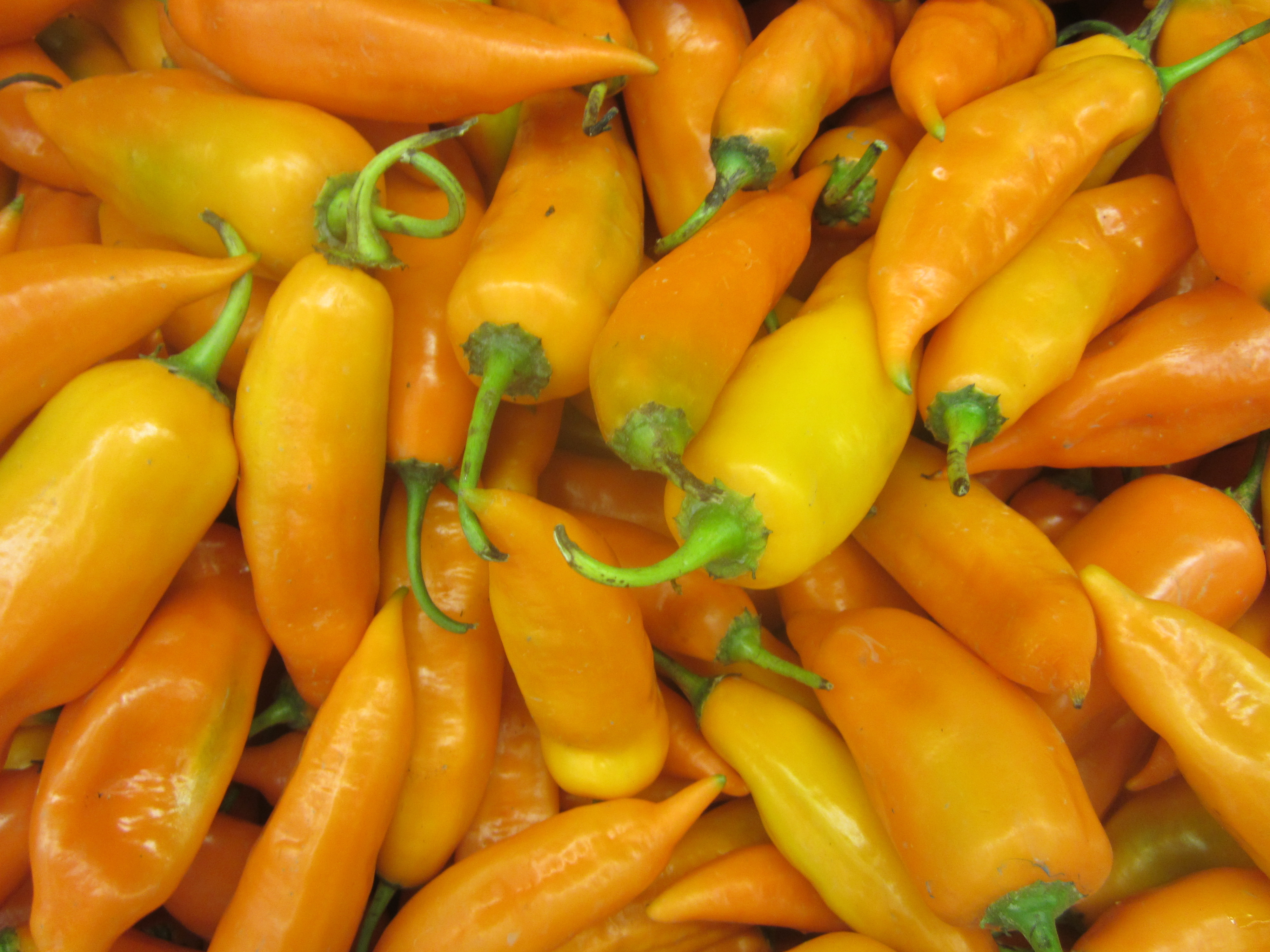 Aji Amarillo pepper Capsicum baccatum cv "Aji Amarillo"